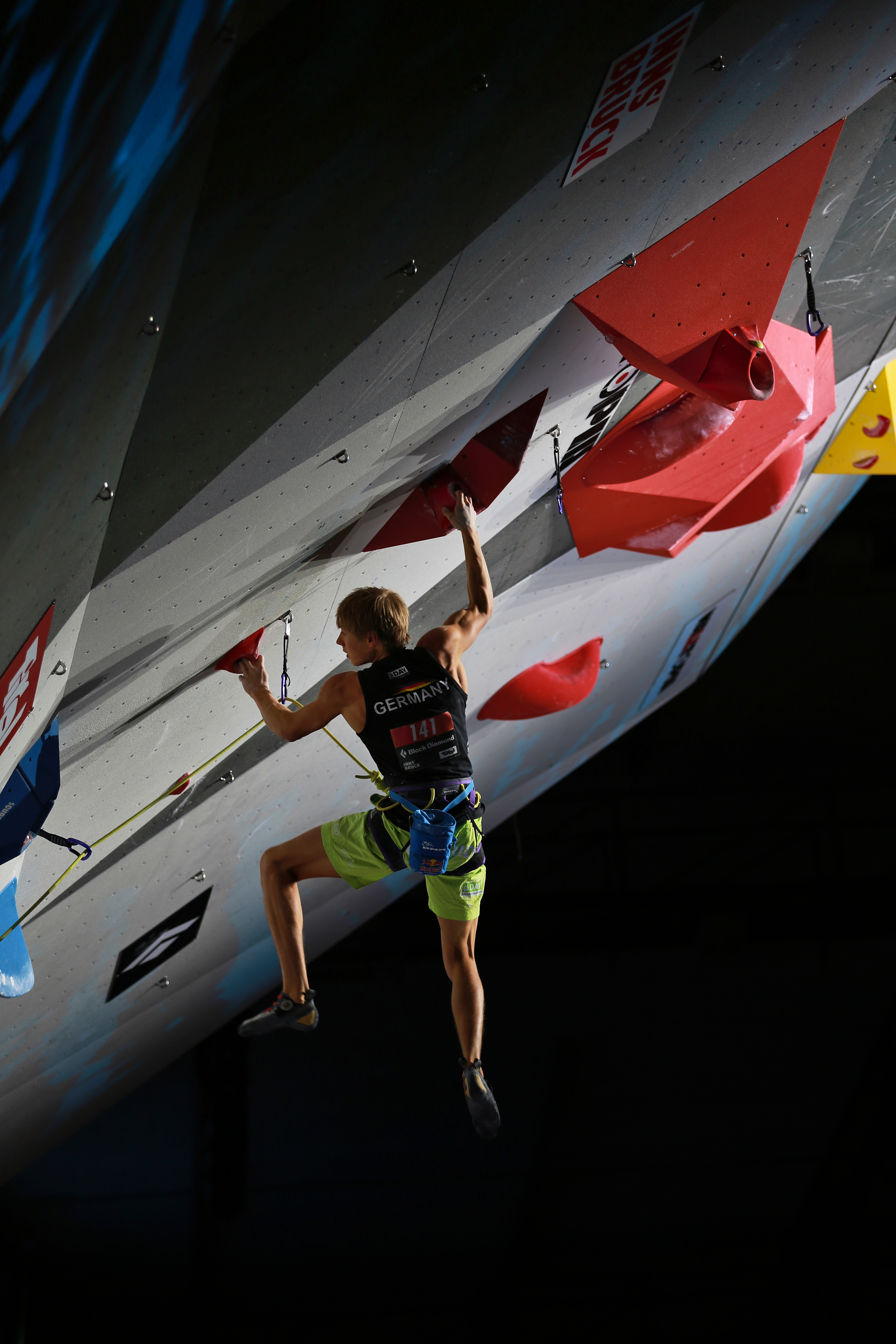 IFSC Climbing World Championships Innsbruck 2018 Final MAN lead 141 MEGOS Alexander GER